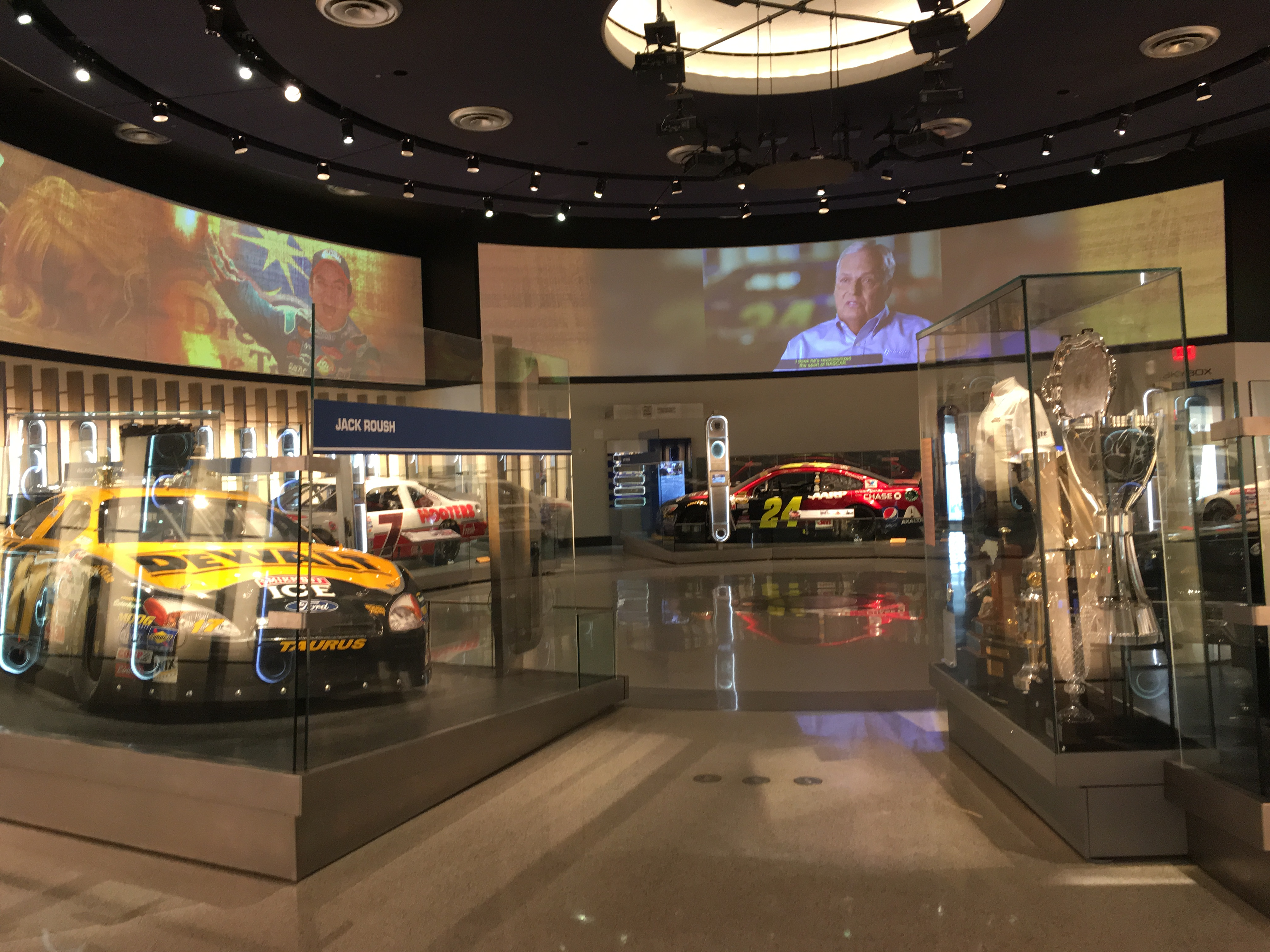 The Hall of Honor at the NASCAR Hall of Fame in Charlotte, North Carolina